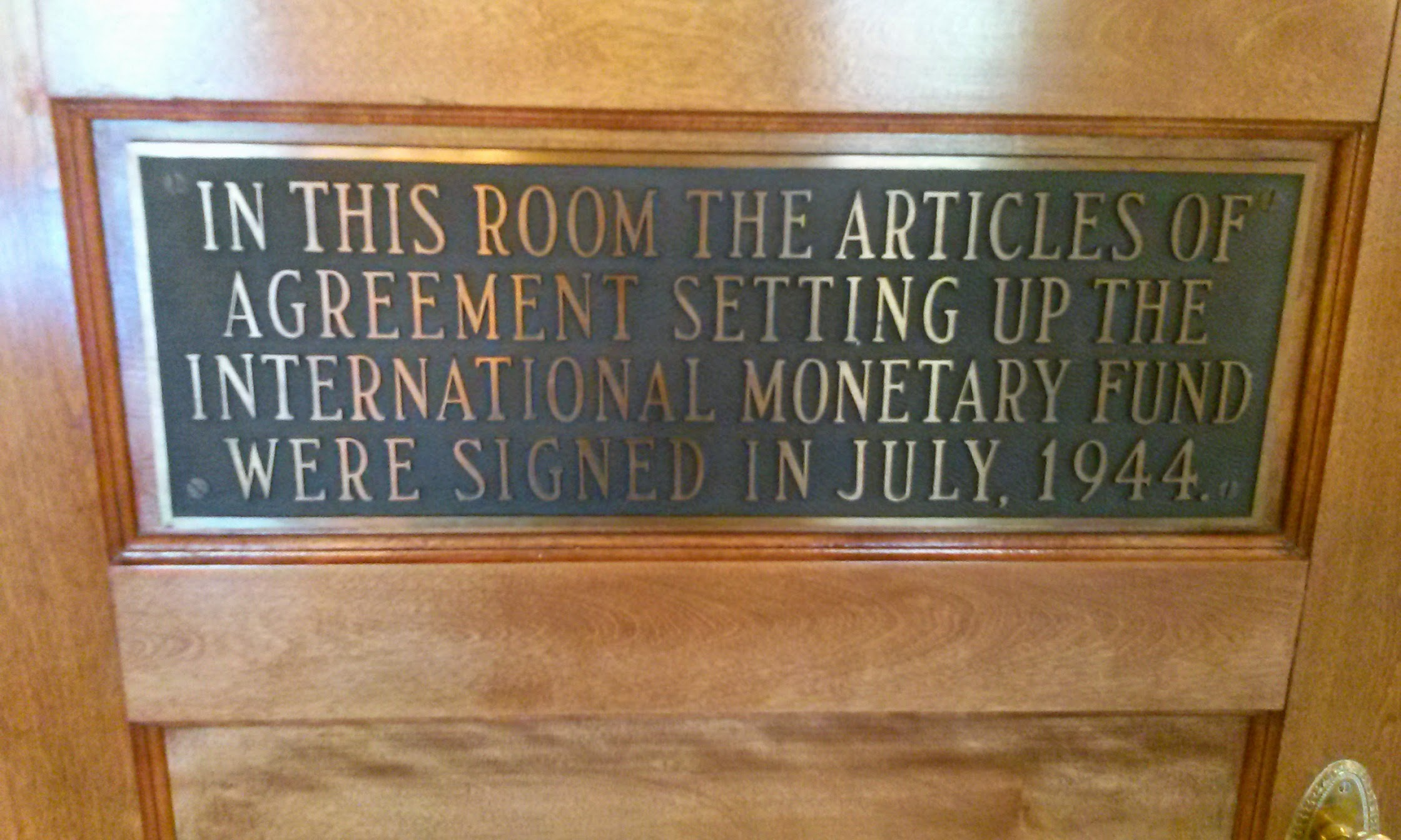 The plaque inside the Gold Room within the Mount Washington Hotel commemorating the establishment of the International Monetary Fund in 1944. The World Bank was also established within those meetings.